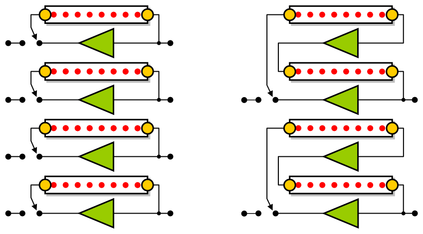 These schematics show two different ways to interconnect the tracks of a magnetic bubble memory. To the left, each of four tracks forms it's own loop, yielding one "magnetic shift register" per track: Since the motion of the "bubbles" are governed by the common signal driving the coils driving the guide patterns, all these registers "move in sync", and thus the setup shown to the left will accept information in "words" of four bits in a parallel fashion. However, the number of tracks usually outnumbers the required word size, so to exchange the "excess" tracks for more bits per track, two or more tracks are coupled in series, as shown in the schematics at right: The output of one track is amplified and signal-conditioned, then sent into the next track, yielding in this case half the number of "tracks", but with twice the number of bits per track.